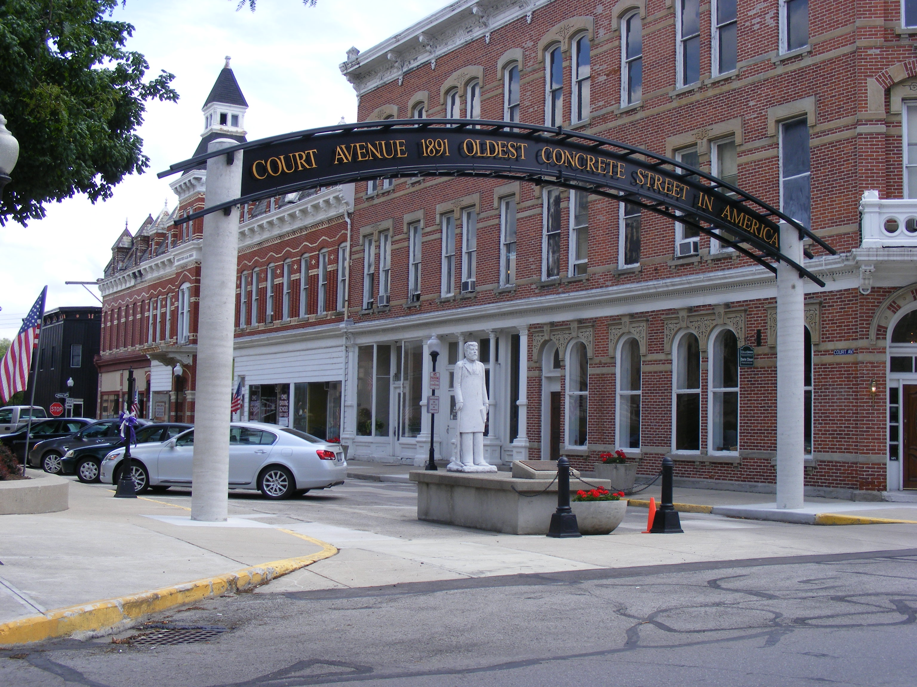 Court Ave, Bellefountaine, Ohio